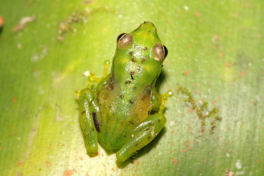 Boophis jaegeri (Green skeleton frog) at the Mantadia National Park, Andasibe, Madagascar